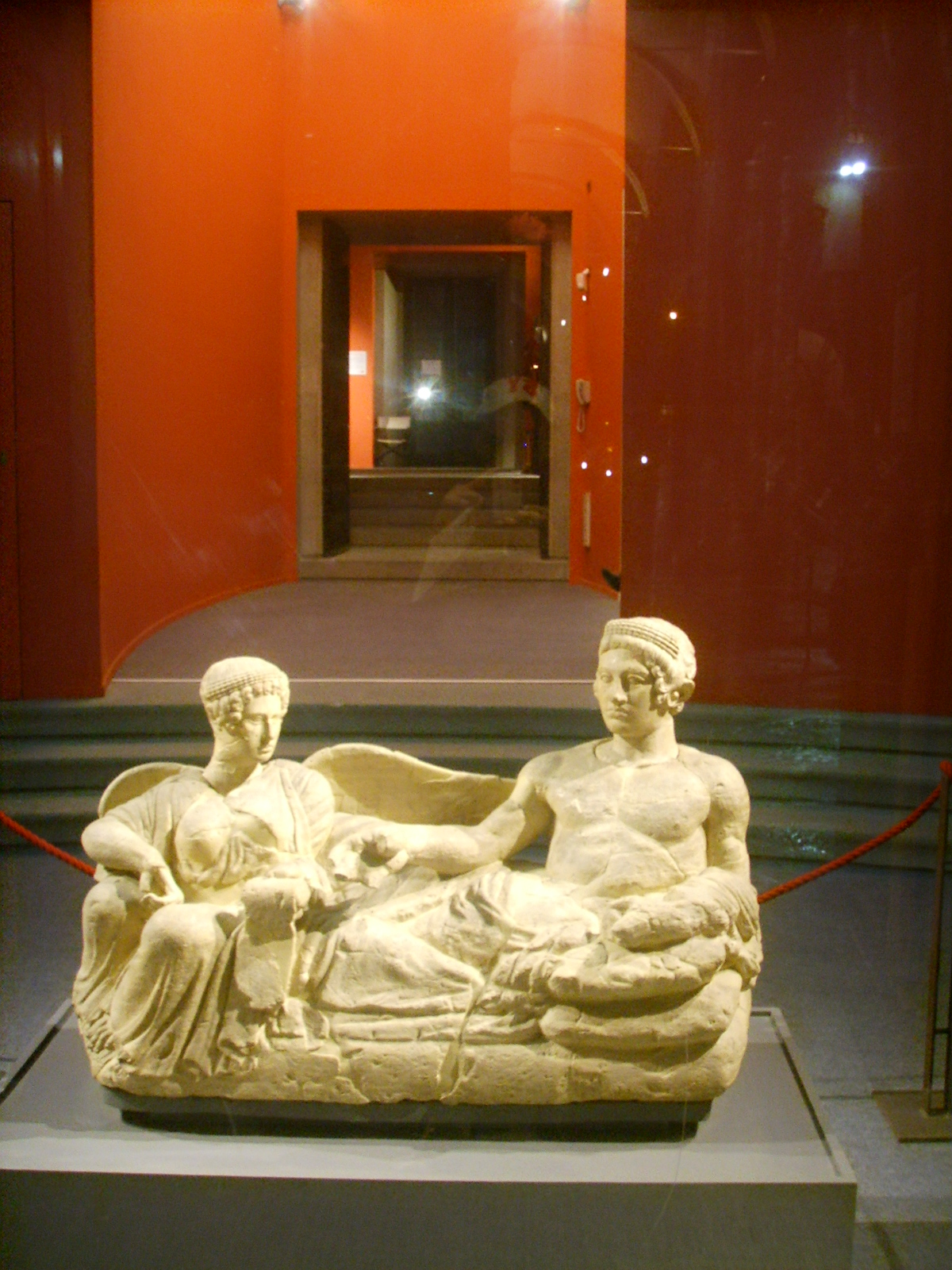 Etruscan cinerary statue with banqueting man and a female death demon, probably Vanth.